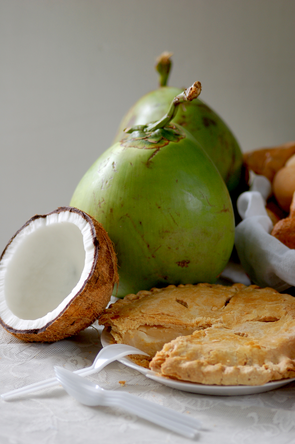 A buko pie.